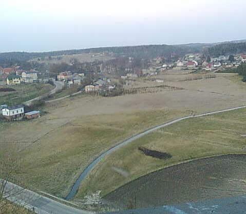 Widok z wierzy kościoła św. Piotra i Pawła